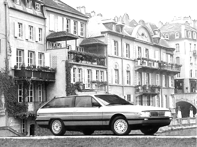 Lancia Gamma Olgiata (Pininfarina Prototype)